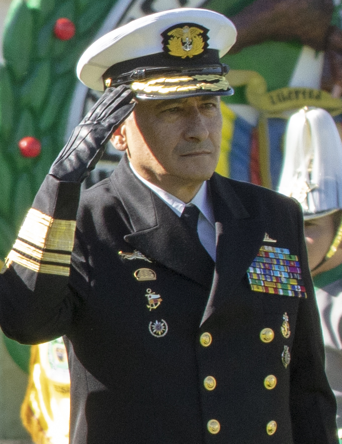 Vice Admiral Evelio Enrique Ramírez Gáfaro, Commander of the Navy of the Republic of Colombia.